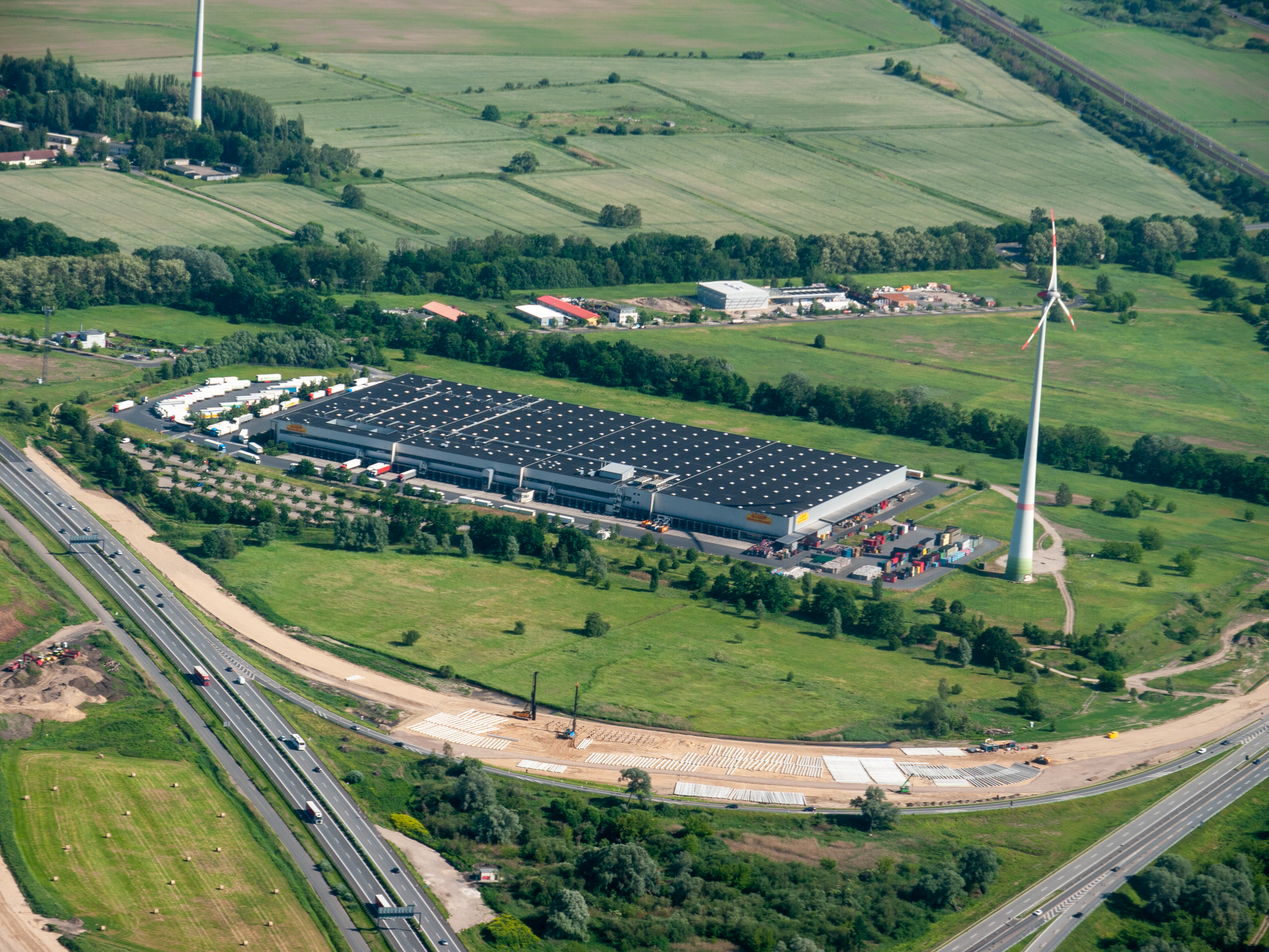 Berlin/Brandenburg in 2019